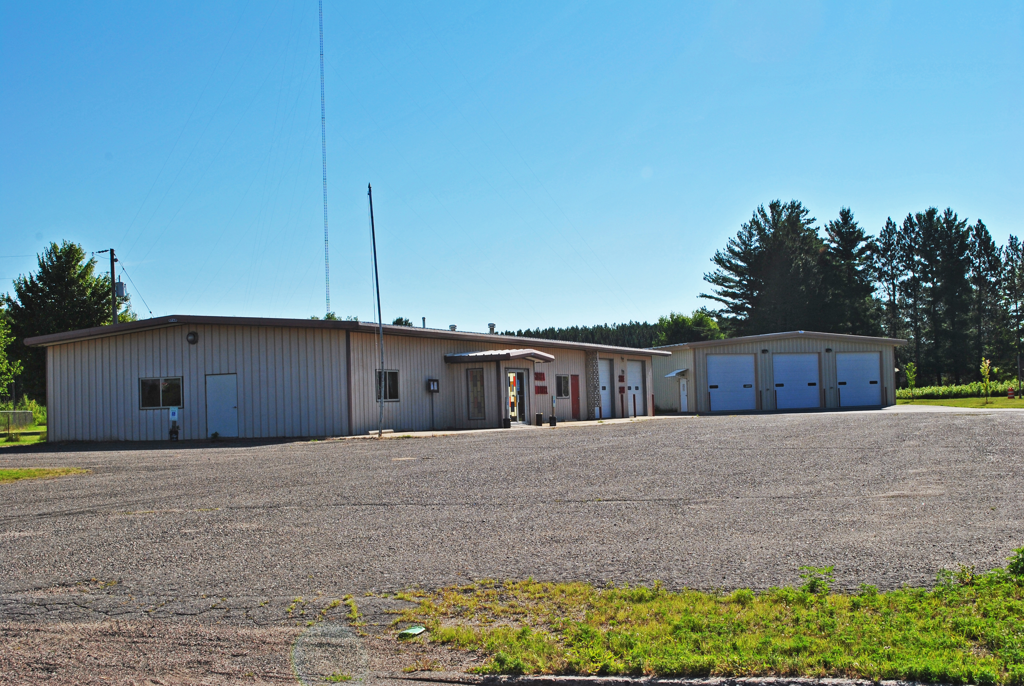 Town of Stella, WI townhall